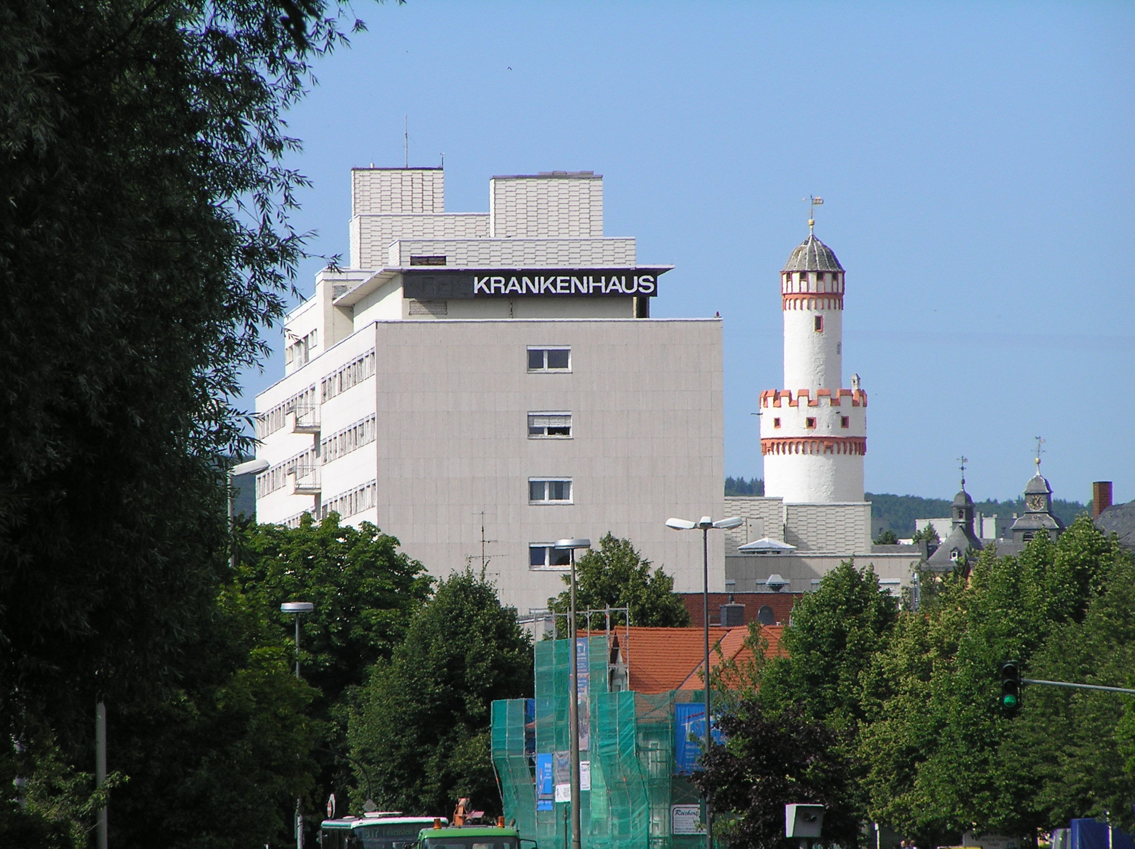 Hospital Bad Homburg, Germany